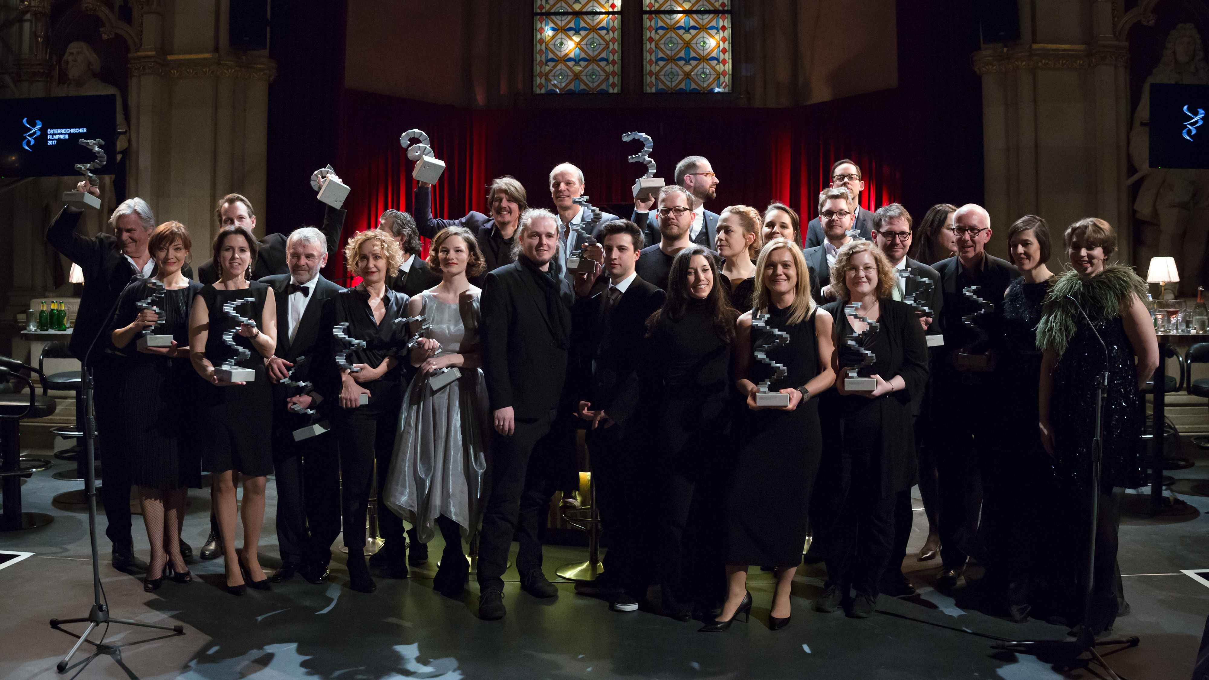 Awardees of the Austrian Film Awards 2017 (Rathaus, Vienna,Austria).